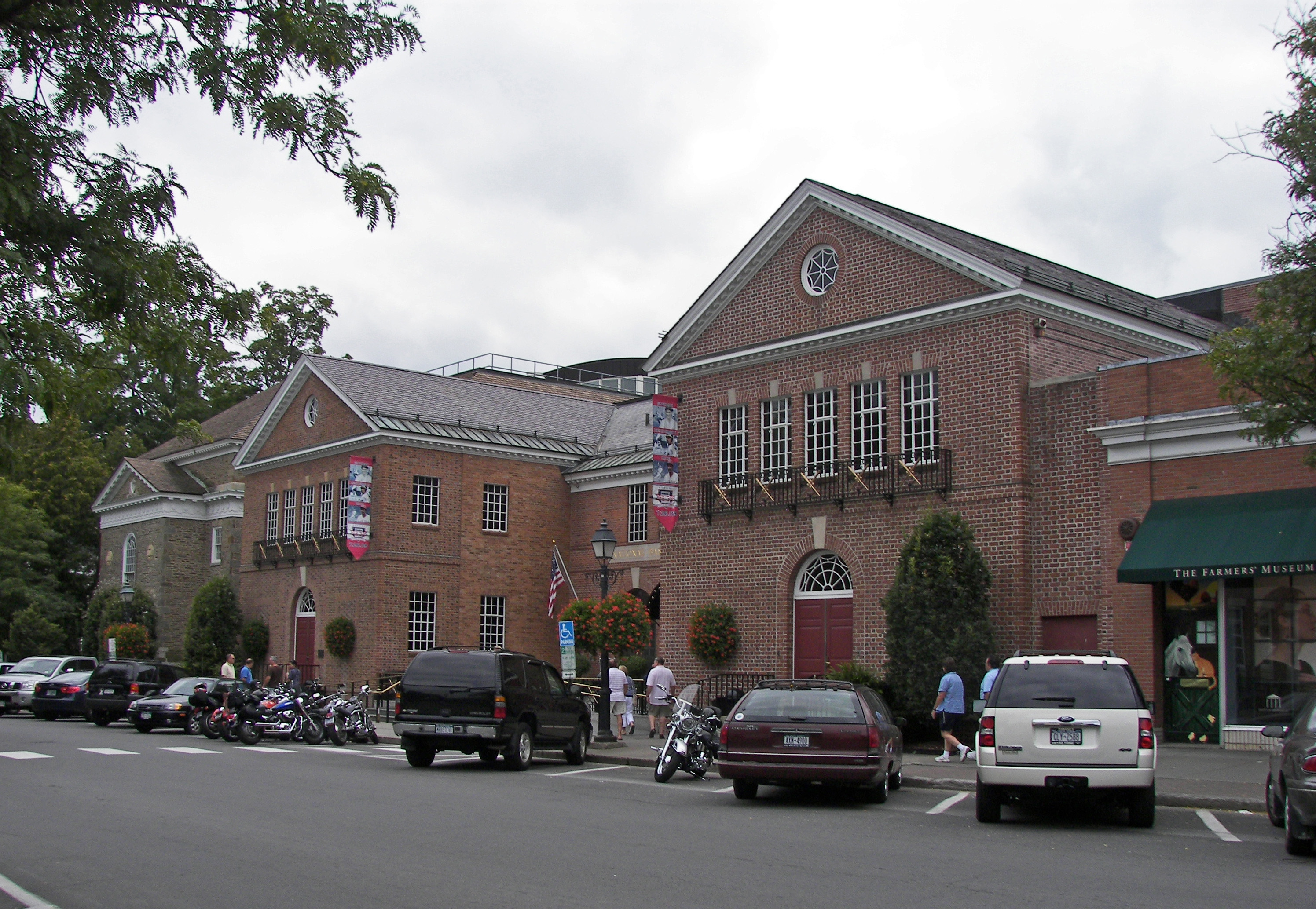 National Baseball Hall of Fame and Museum in Cooperstown, New York. Part of the Cooperstown Historic District.